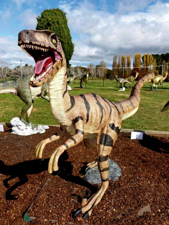 Stolen Utahraptor statue in ACT, Australia